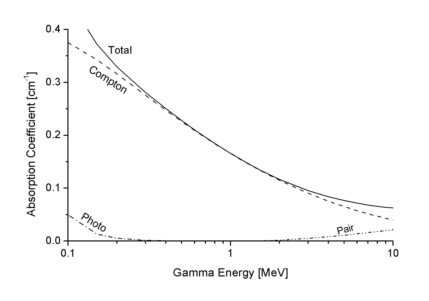 Gamma absorption coefficient for aluminum